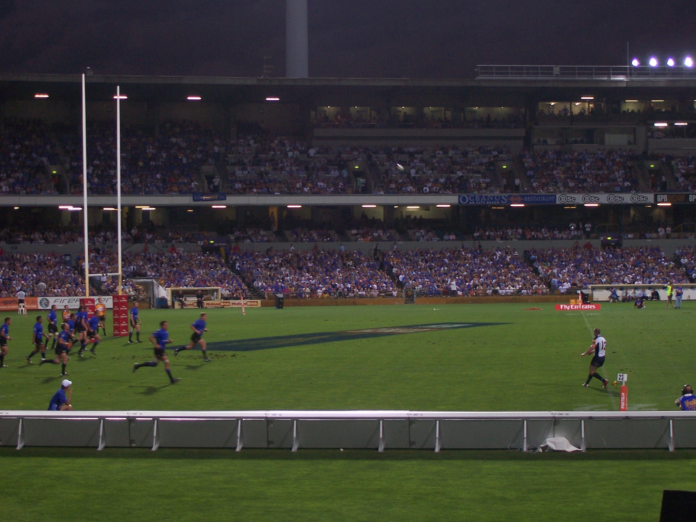 Stirling Mortlock converts a try for the Brumbies during their win over the Force at Subiaco Oval.